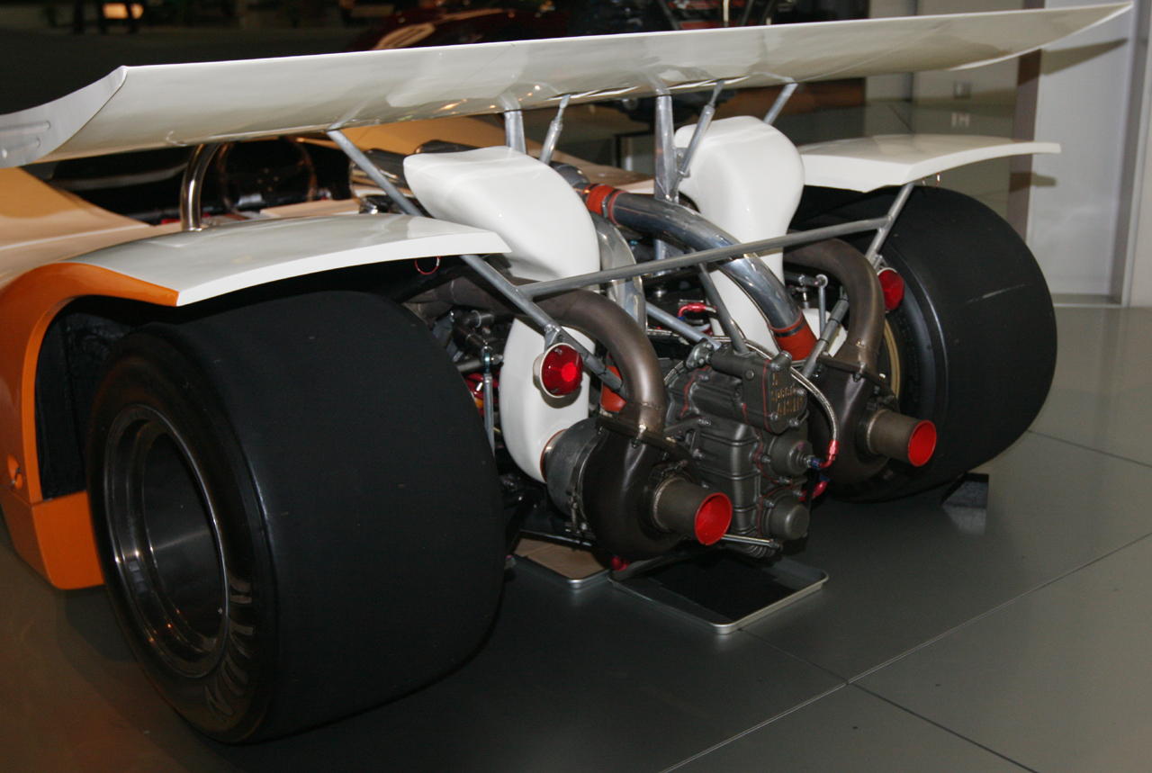 1970 Toyota 7, turbo-charged car.